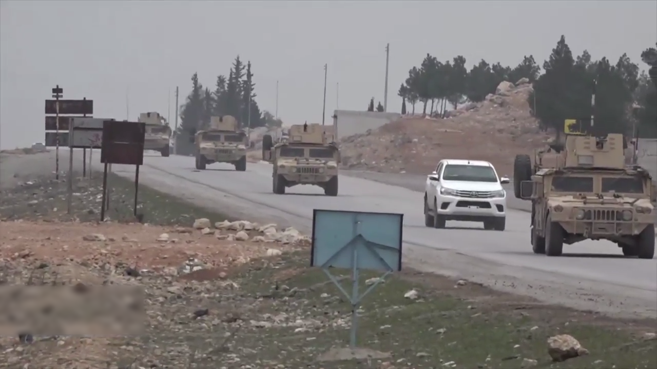 US Humvees drive through a village near the city of Manbij in northern Syria.